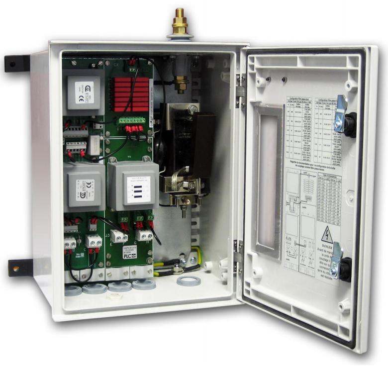 Line Matching Units is a composite unit consisting of Drain Coil, Isolation transformer with Lightning Arrester on its both the sides, a Tuning Device and an earth switch. Tuning Device is the combination of R-L-C circuits which act as filter circuit. LMU is also known as Coupling Device. Together with coupling capacitor, LMU serves the purpose of connecting effectively the Audio/Radio frequency signals to either transmission line or PLC terminal and protection of the PLCC unit from the over voltages caused due to transients on power system.